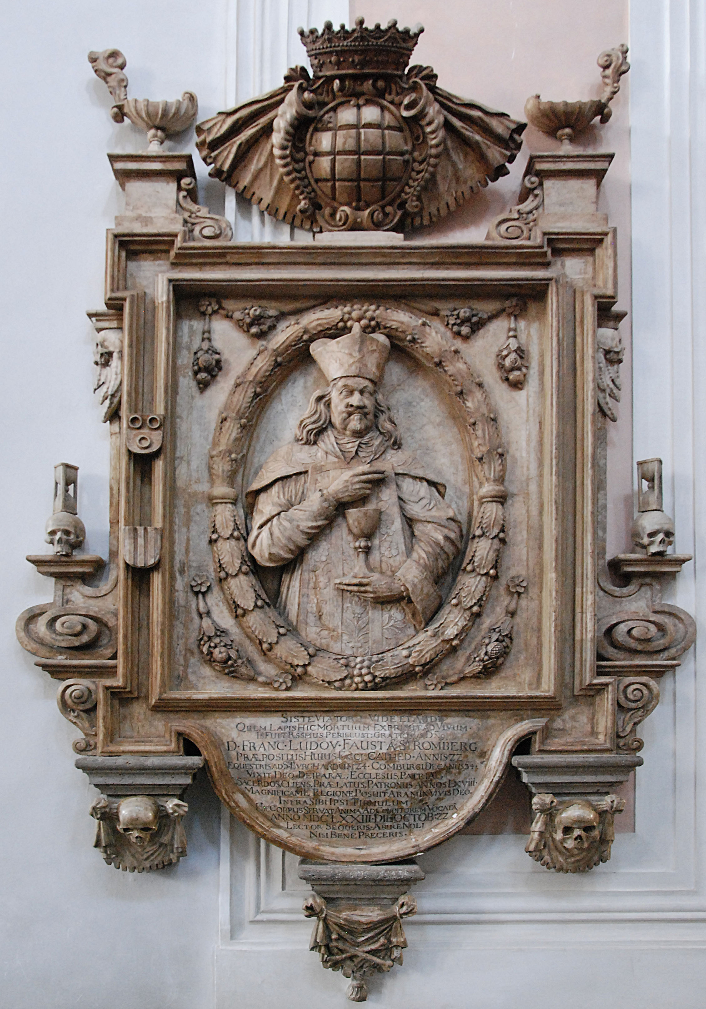 Franz Ludwig Faust von Stromberg (1605-1673) St. Kilian's Cathedral (Würzburg)